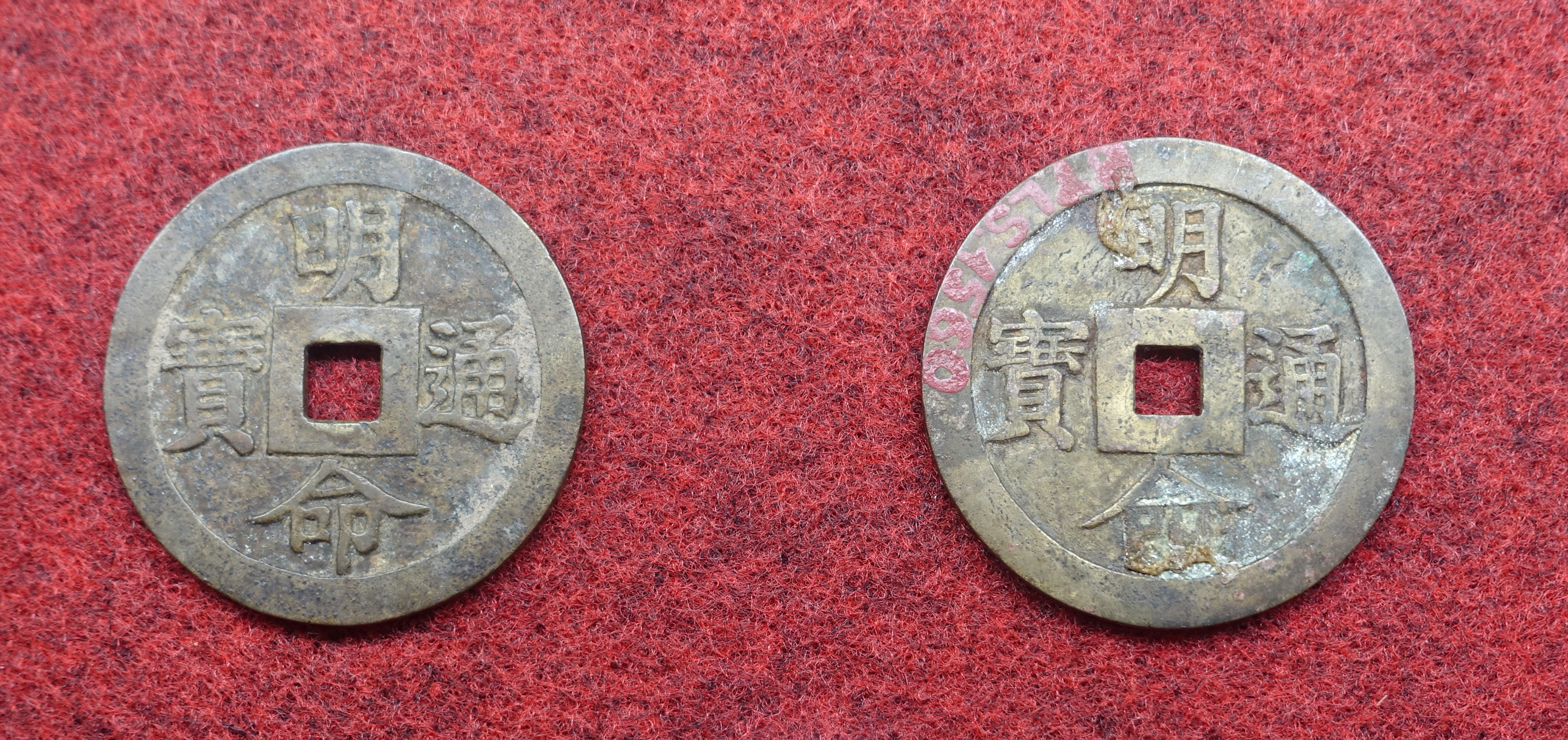 Exhibit in the Museum of Vietnamese History, Ho Chi Minh City, Vietnam. This work is old enough so that it is in the public domain.